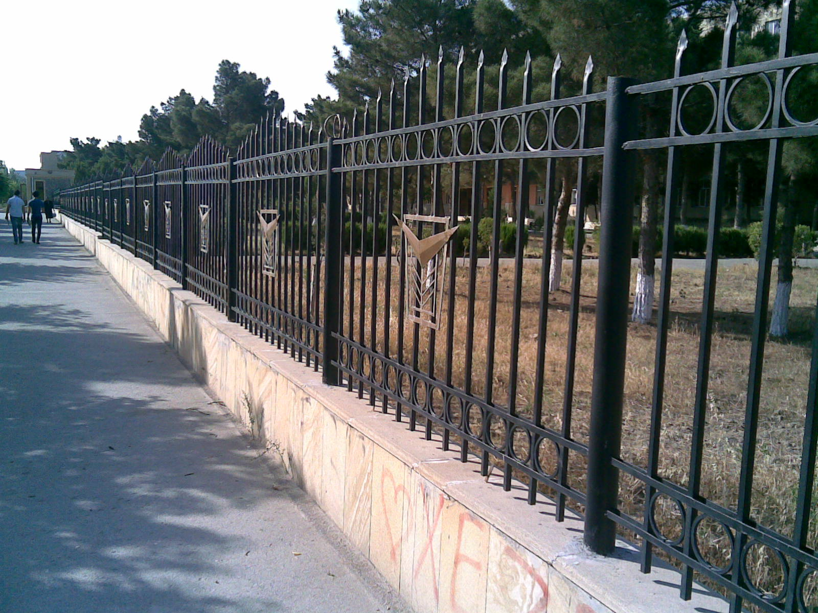 Sumgayit State University